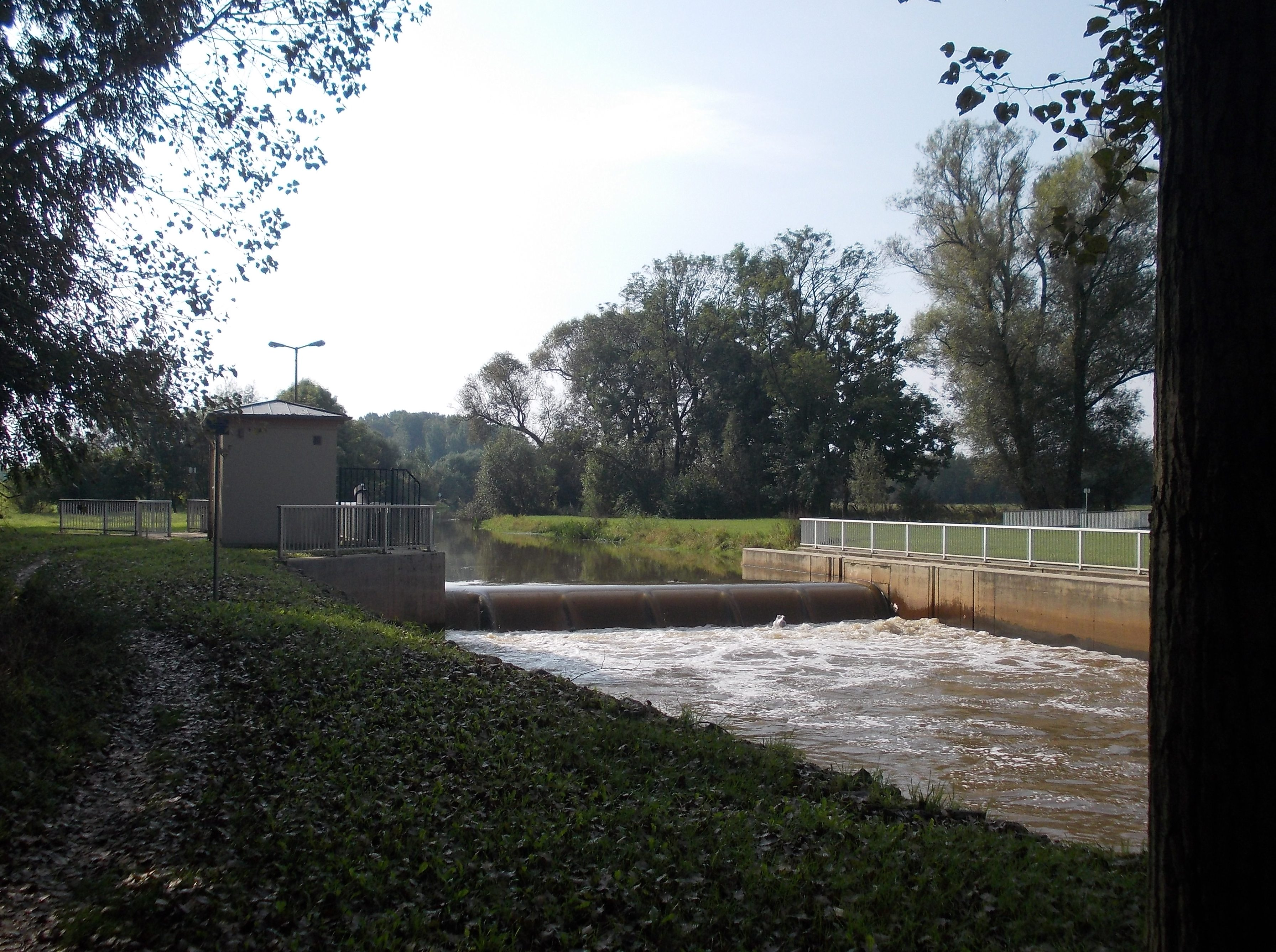 Weir on the Pleisse river near Gaulis (Böhlen, Leipzig district, Saxony)